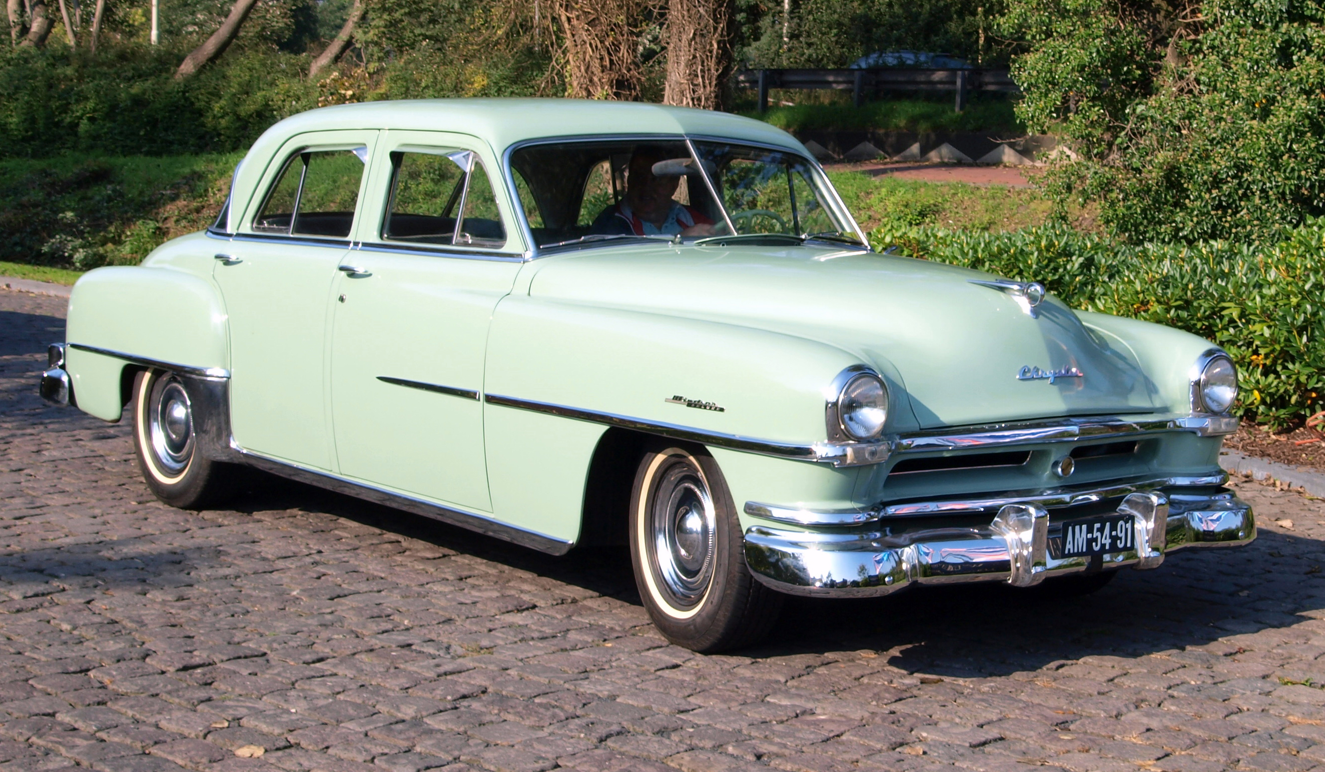 Photographed at the premmesis of the Louwman museum, The Hague, The Netherlands. OLYMPUS DIGITAL CAMERA